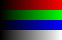 RGBW bars (original)